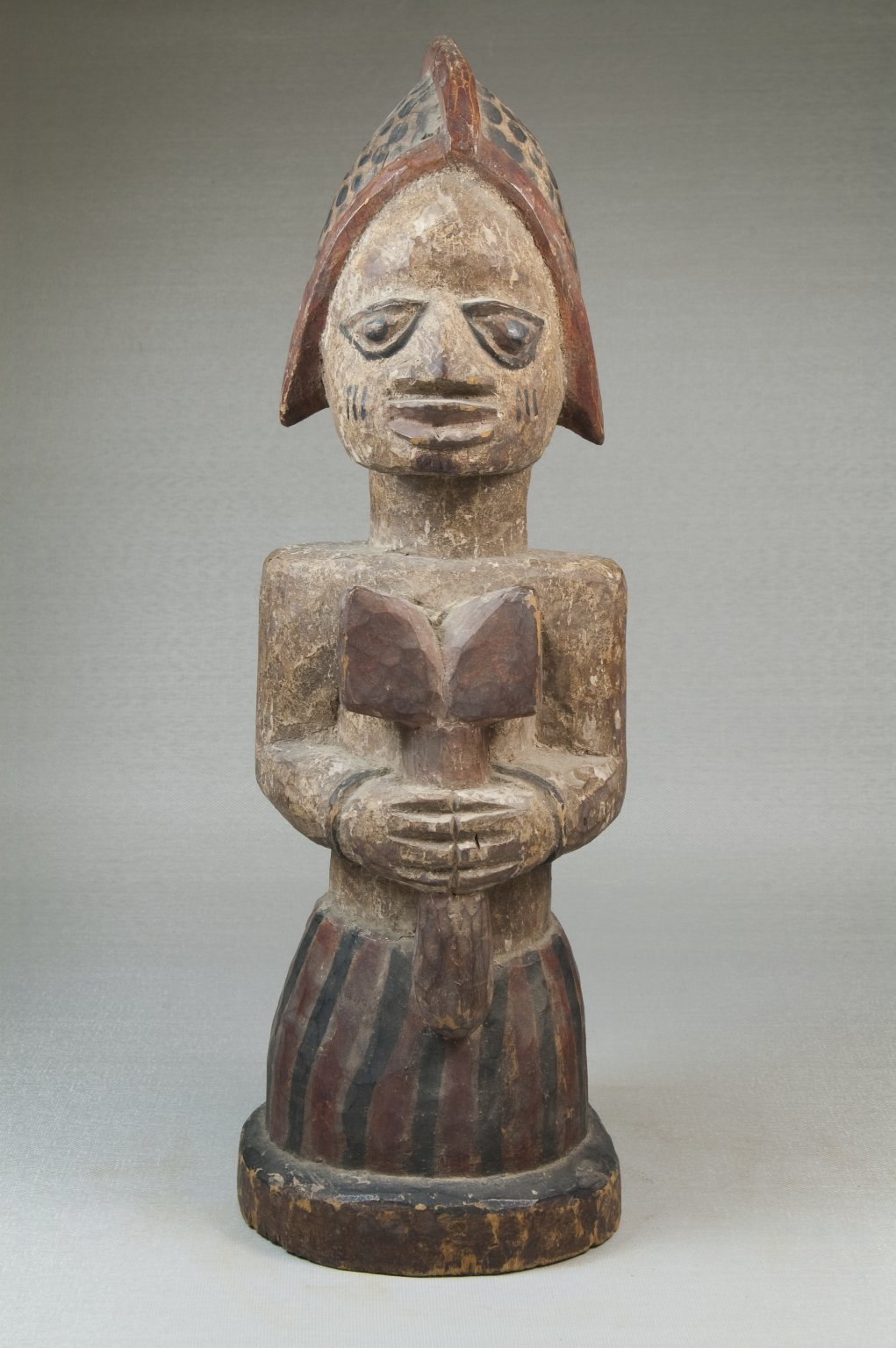 Female figure with helmet like coiffure, painted with spots. Large, bulging eyes, and cheek scarification marks. figure wears a striped skirt, and is set on a flat oval base. No legs. Condition: Worn with abrasions and flaking. has been repaired. Checks from top of head through base.